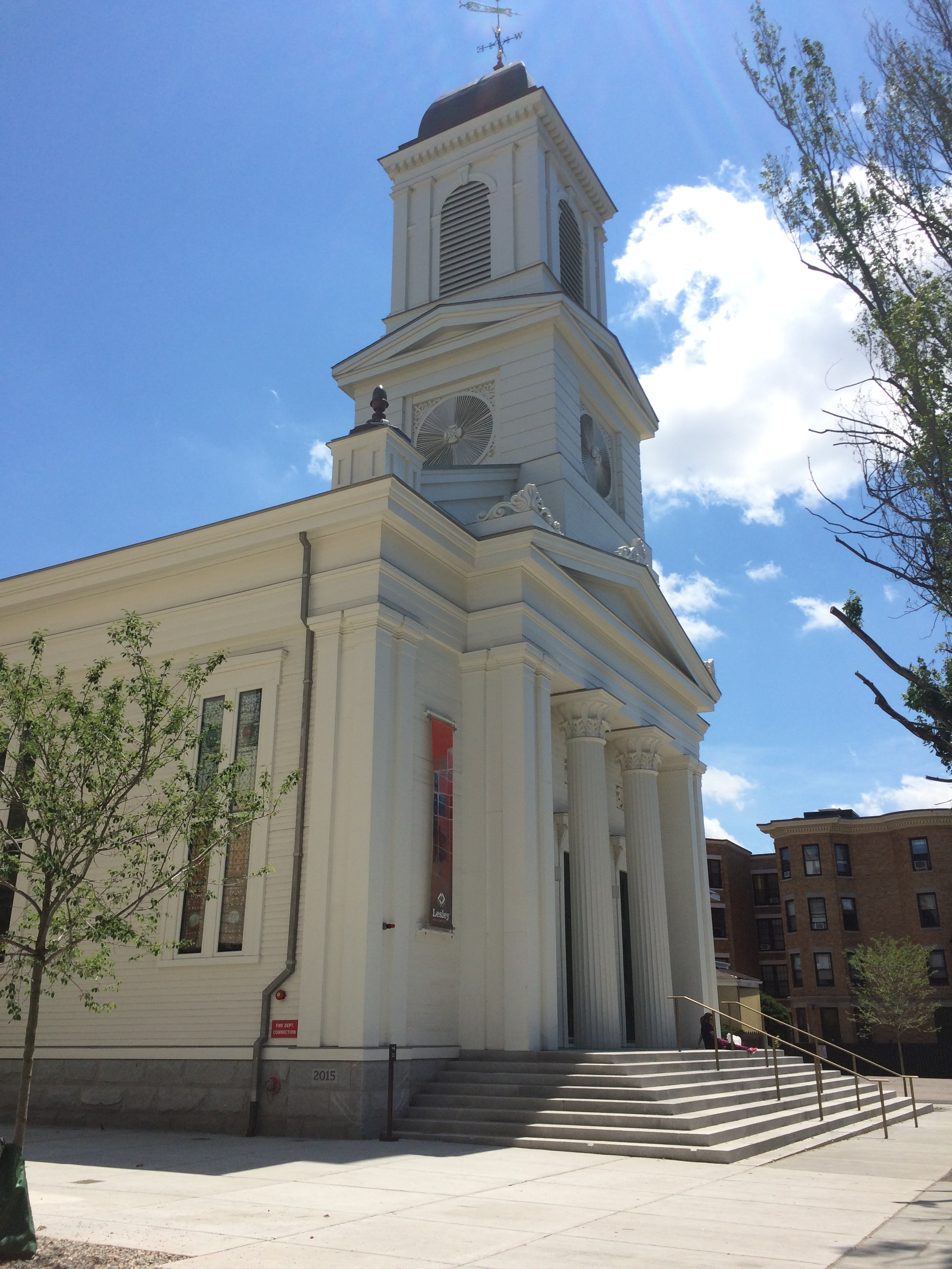 What was once the North Prospect Congregational Church and now a present day historical landmark, Lesley University's John and Carol Moriarty Library was restored as part of the Lunder Arts Center project completed in January 2015.